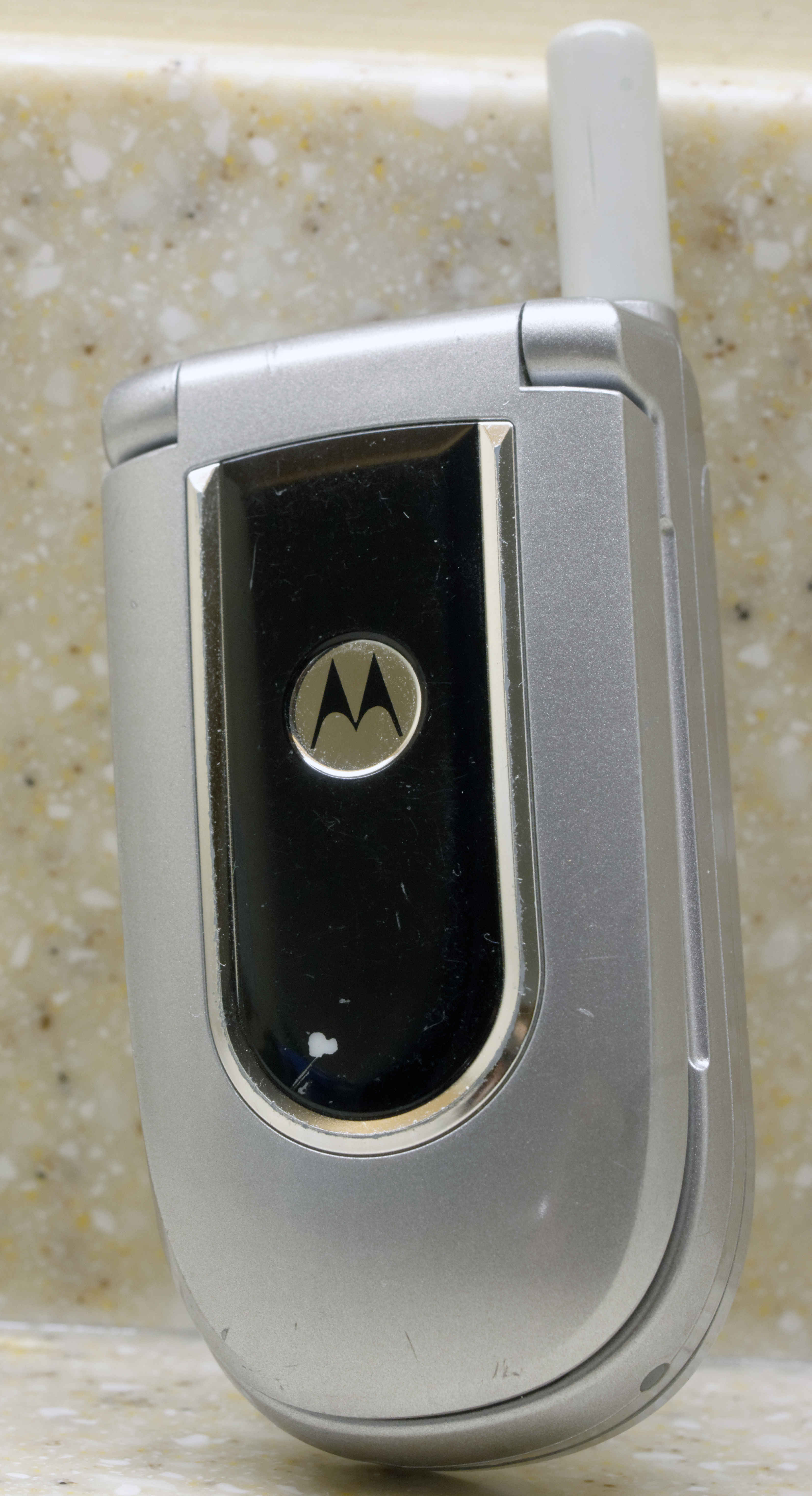 A Motorola flip phone, closed